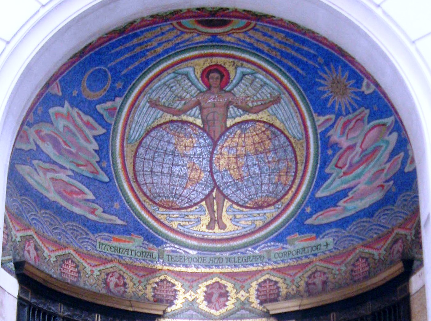 Looking northeast at southwestern corner door of 75 Broad Street at corner of South Williams Street, former headquarters of ITT Corporation, on a cloudy afternoon. See File:75 Broad south door detail jeh.jpg for more pixels